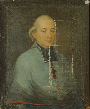 Portrait of Jean Charles de Coucy (1746-1824)